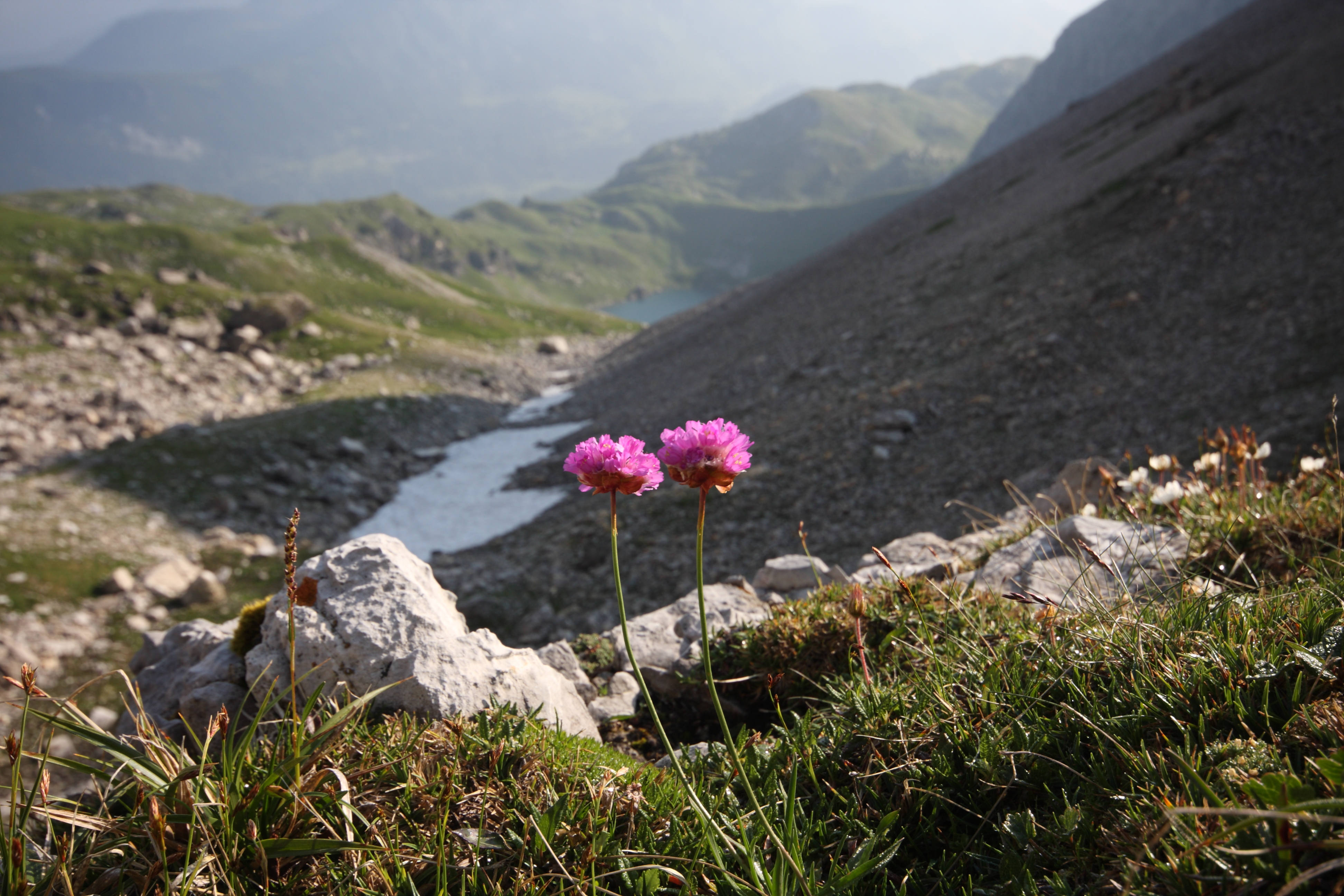 Wildsee , Obertauern, Salzburg, Austria